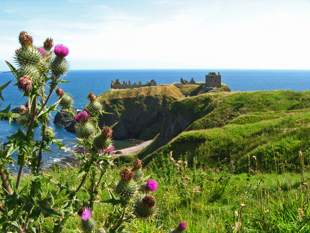 Dunnottar Castle